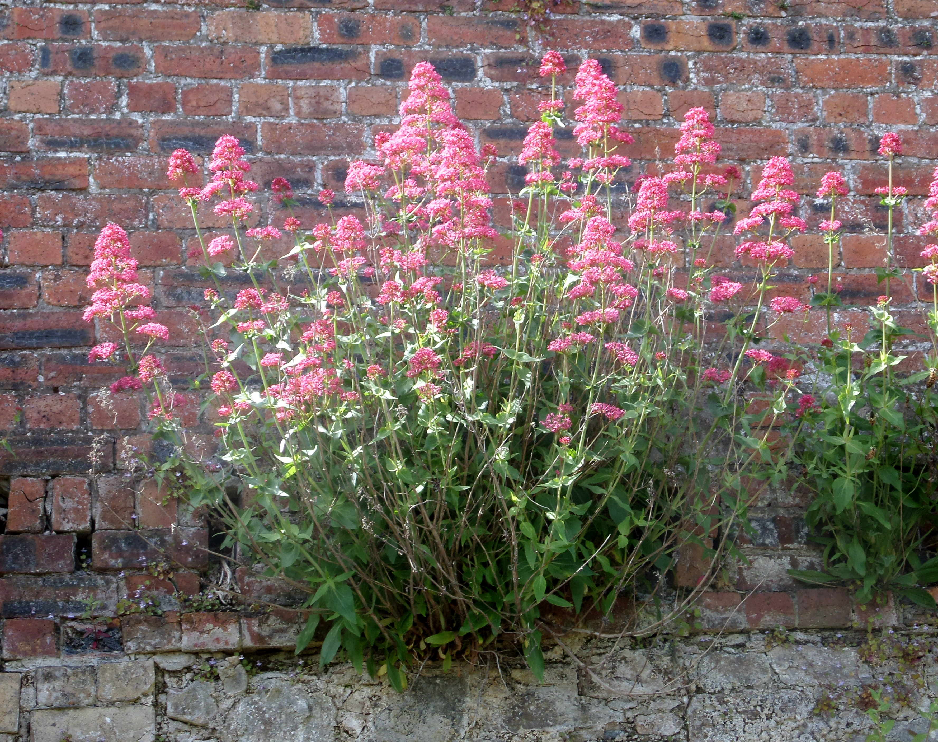 Details of Centranthus ruber or Red Valerian flowers on a wall at the old Ayr Citadel, South Ayrshire, Scotland.